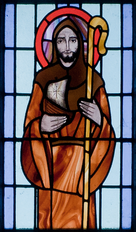 Detail of stained glass window depicting Saint Brendan.